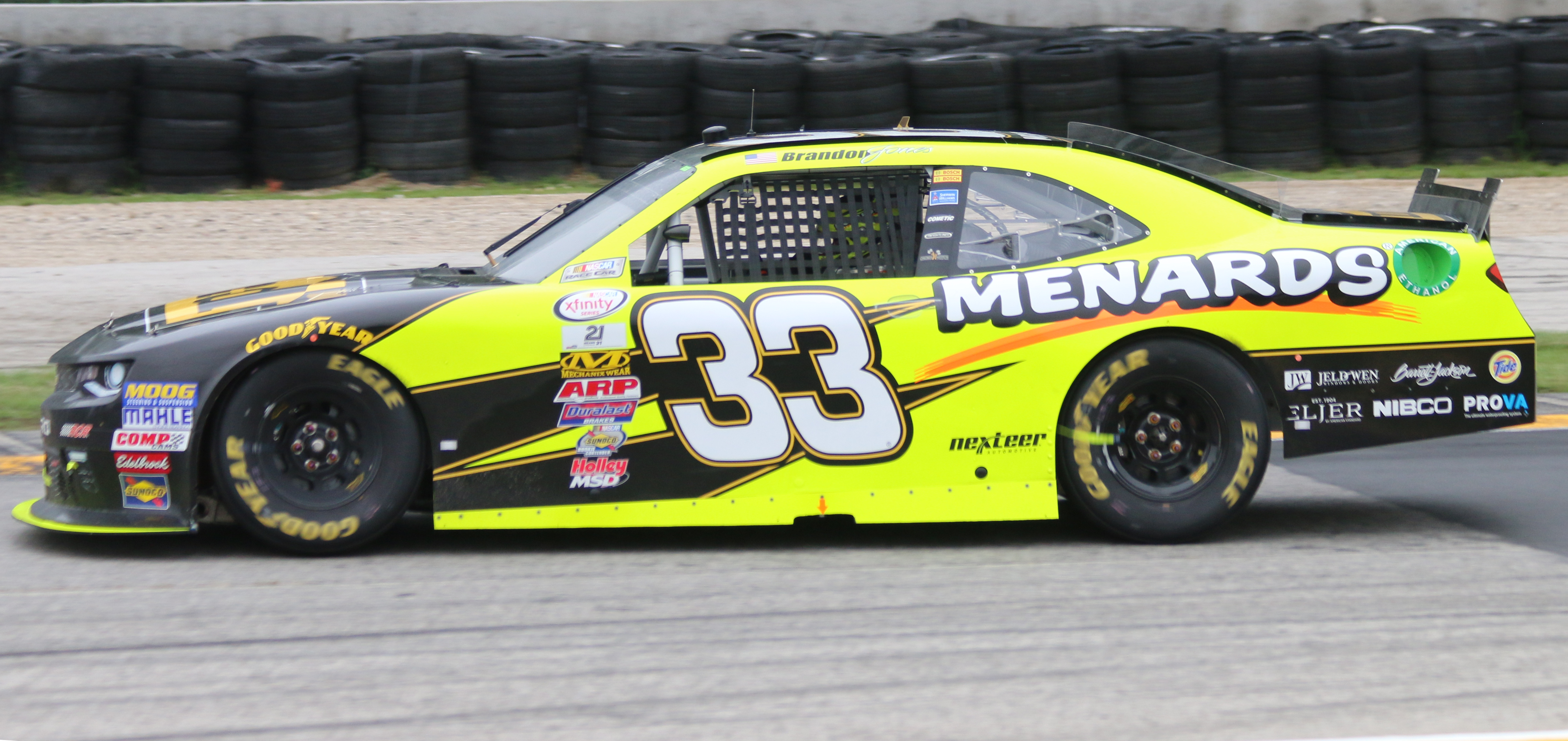 The Chevrolet Camaro of Brandon Jones at the NASCAR Xfinity Series Road America 180.